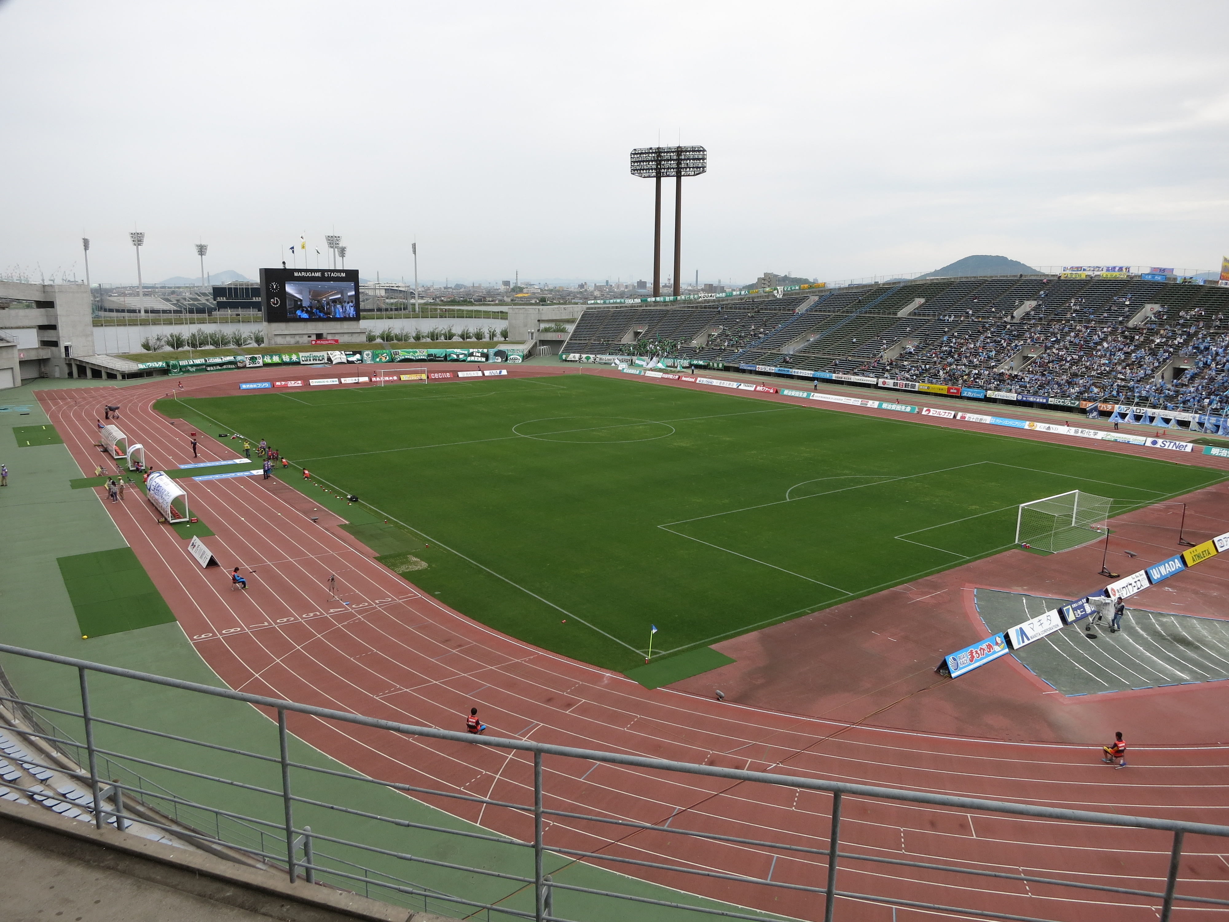 Marugame Athletic Field